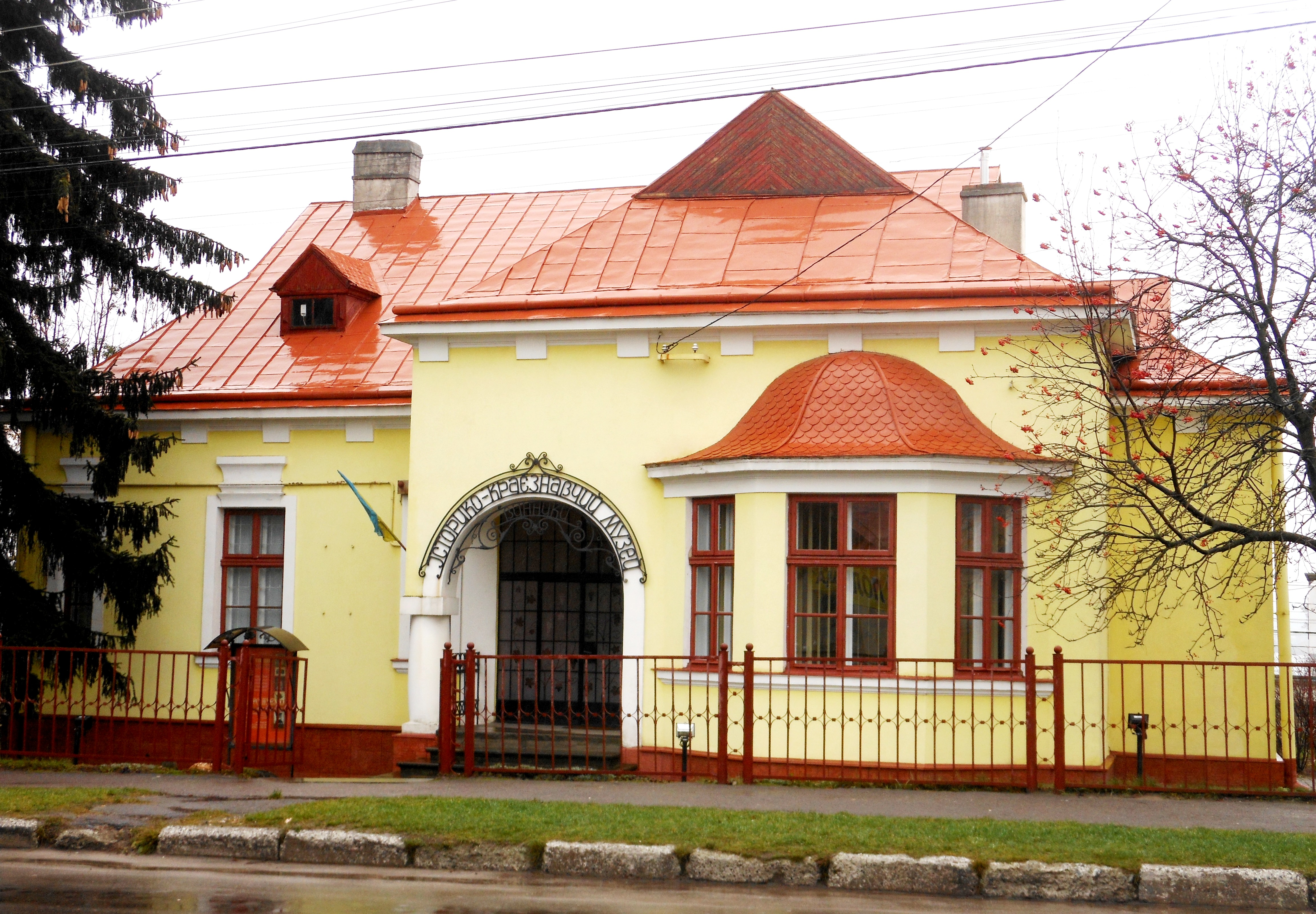 Historical Museum in Vynnyky